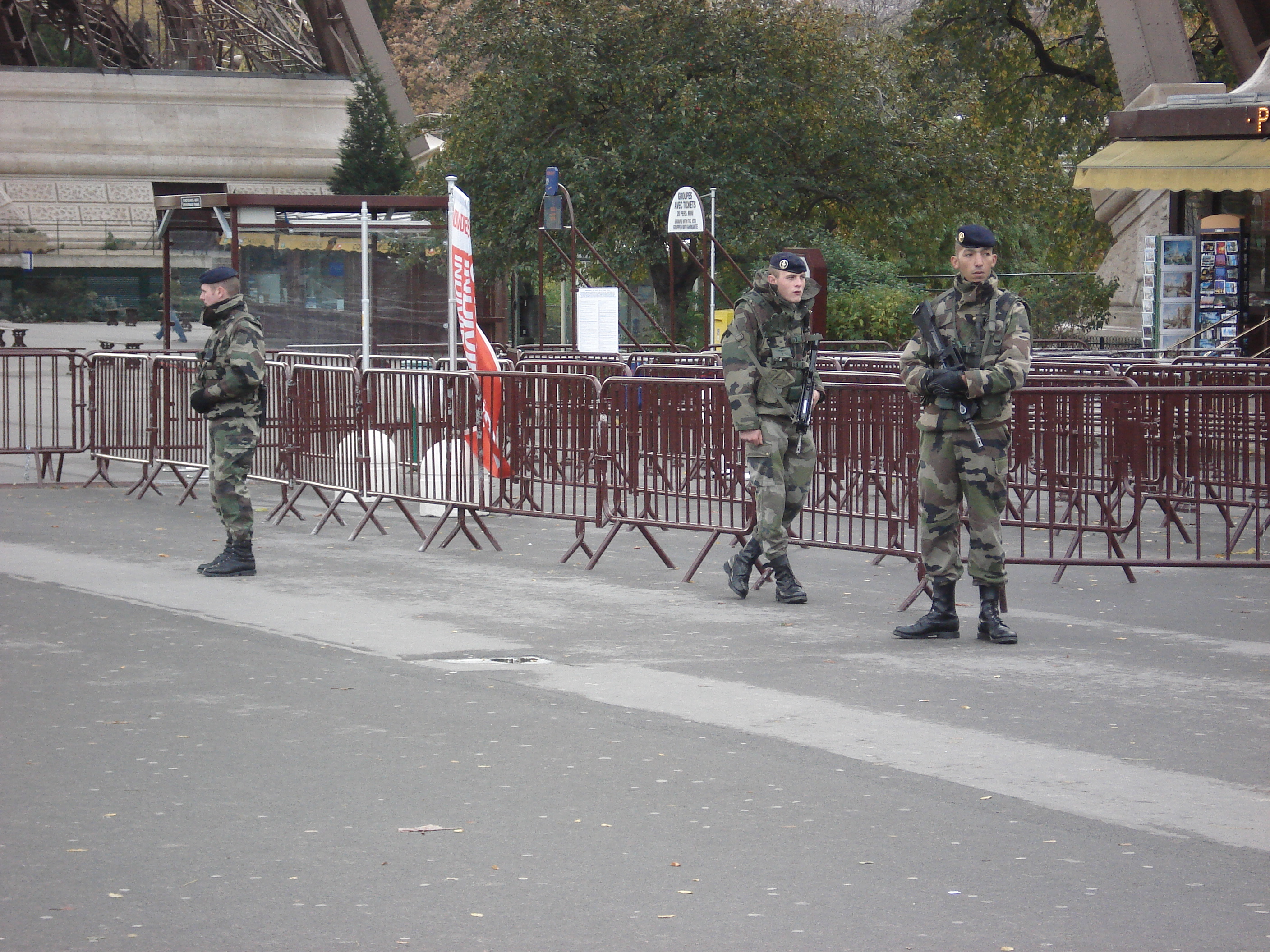 Vigipirate patrol. French Army members near the Eiffeltower, Paris, France